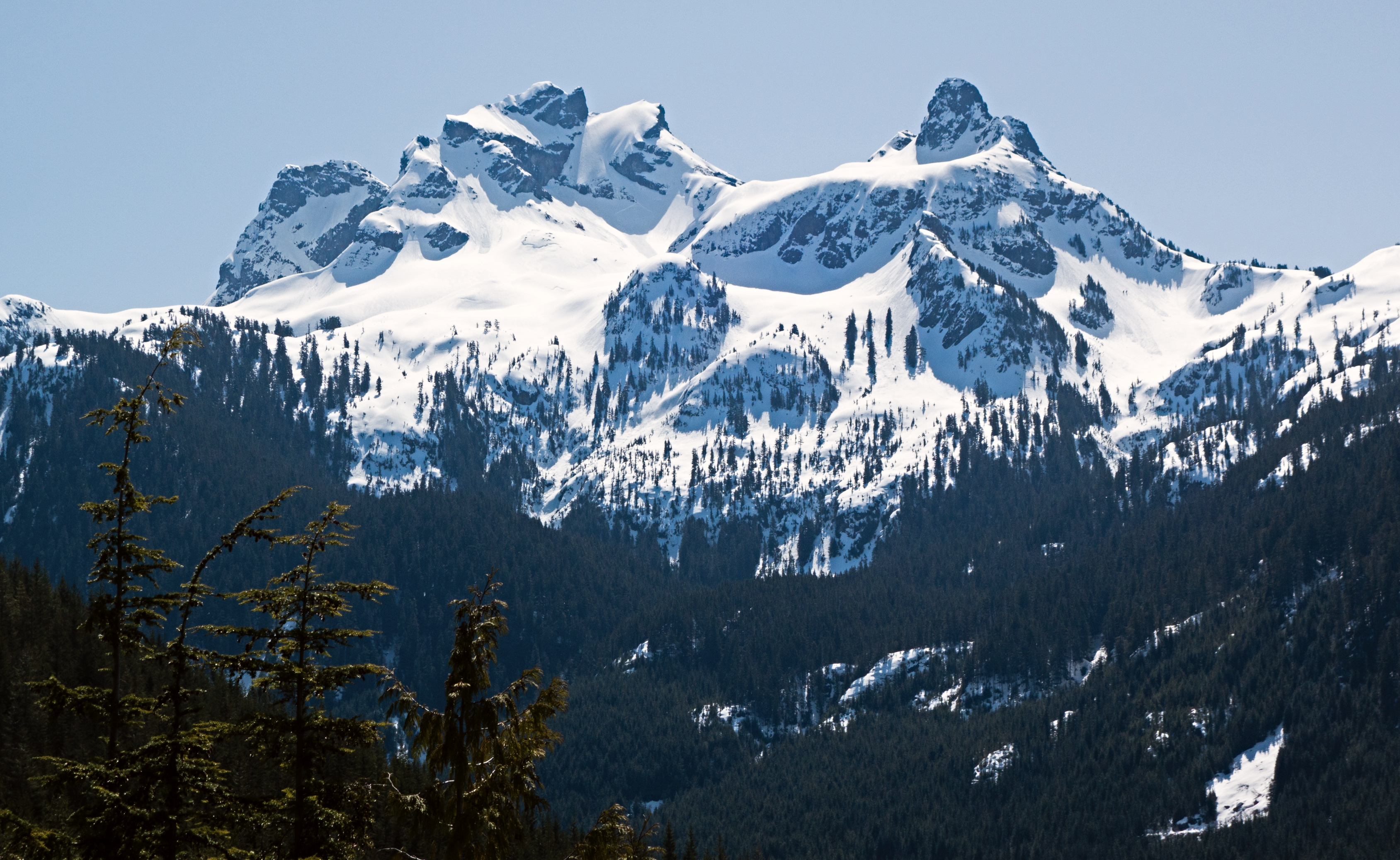 Sky Pilot Mountain, BC Canada